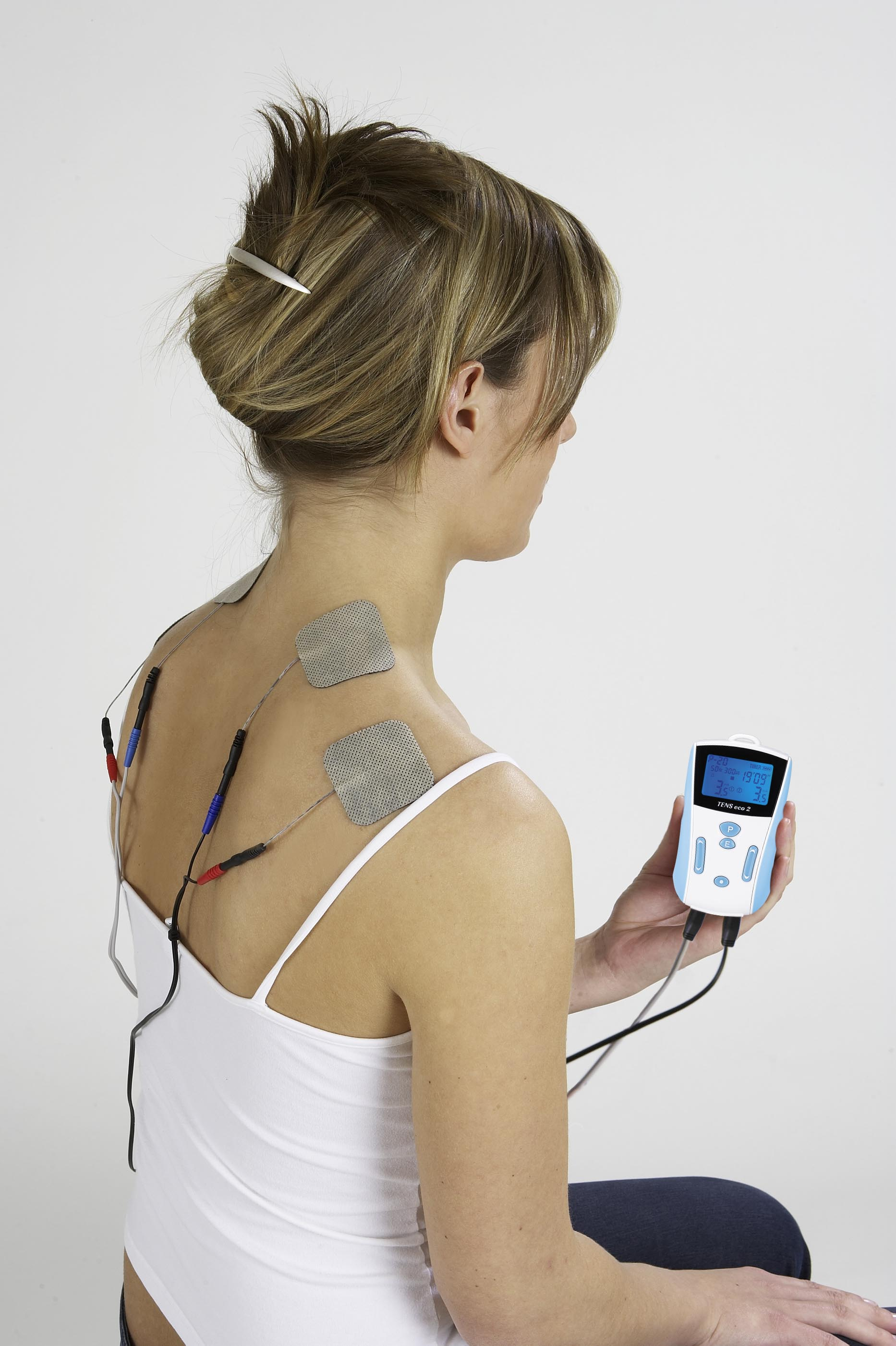 How to use a TENS device ?